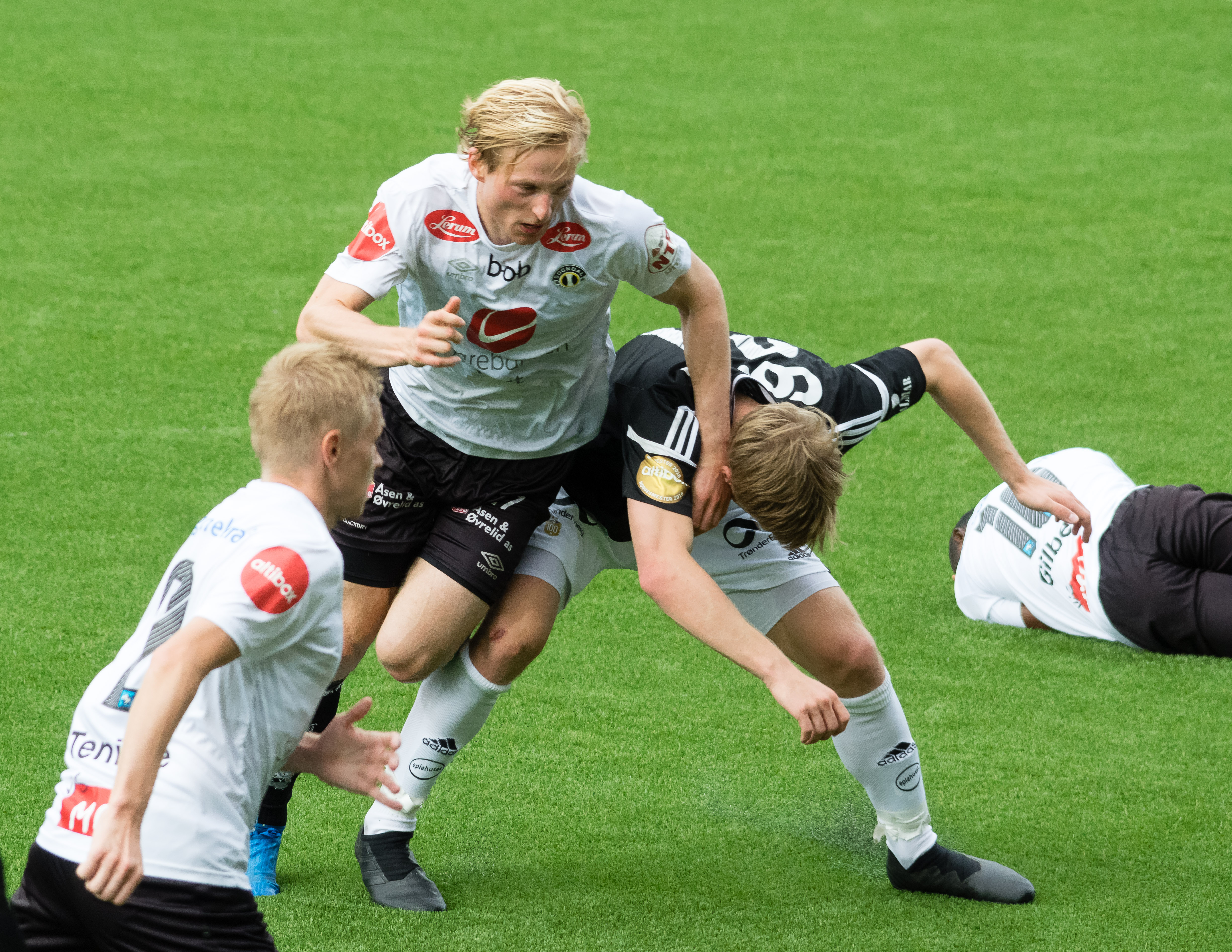 Eirik Birkelund, Sogndal-Rosenborg 07-15-2017.